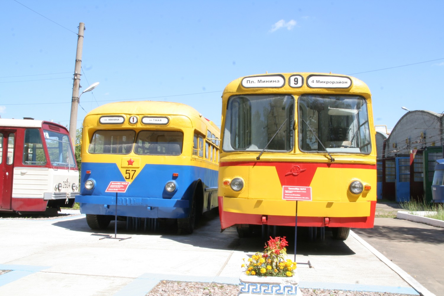 The Soviet trolleybuses of MTB-82 (in yellow-blue colors) and ZiU-5 (in yellow-red colors) types in museum in Nizhni Novgorod